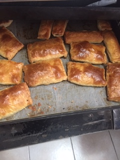 Tray containing Greek meat pies (kreatopites).